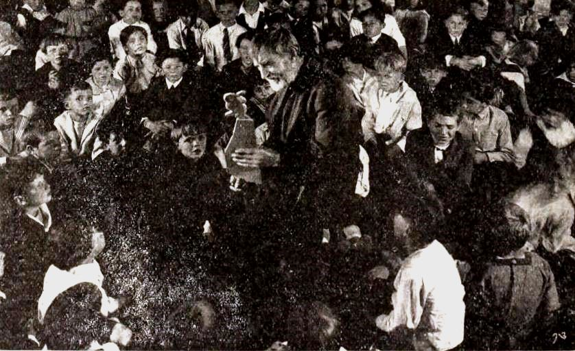 Damaged still from the American drama film The Jack-Knife Man (1920) with Fred Turner, on page 68 of the September 11, 1920 Exhibitors Herald.